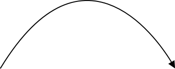 Flying path of plastic shuttlecocks